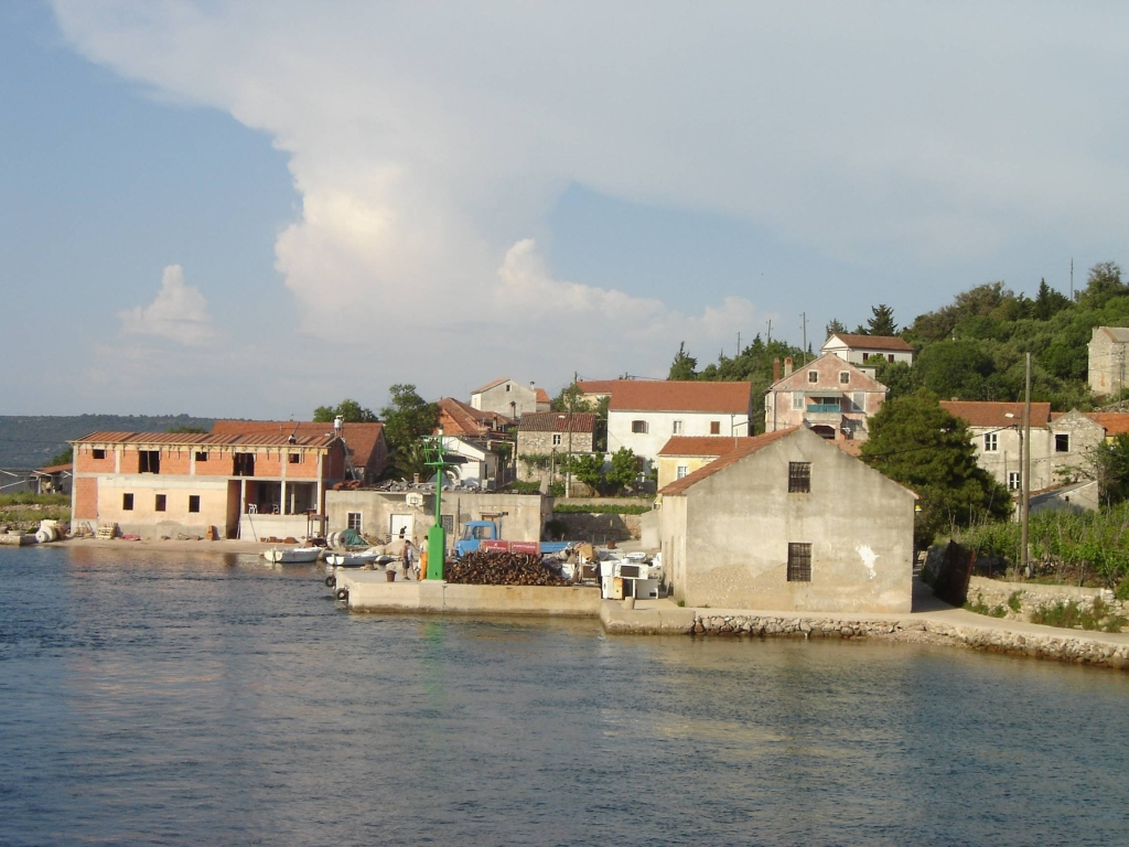 Lokvina bay on island Rava, Croatia